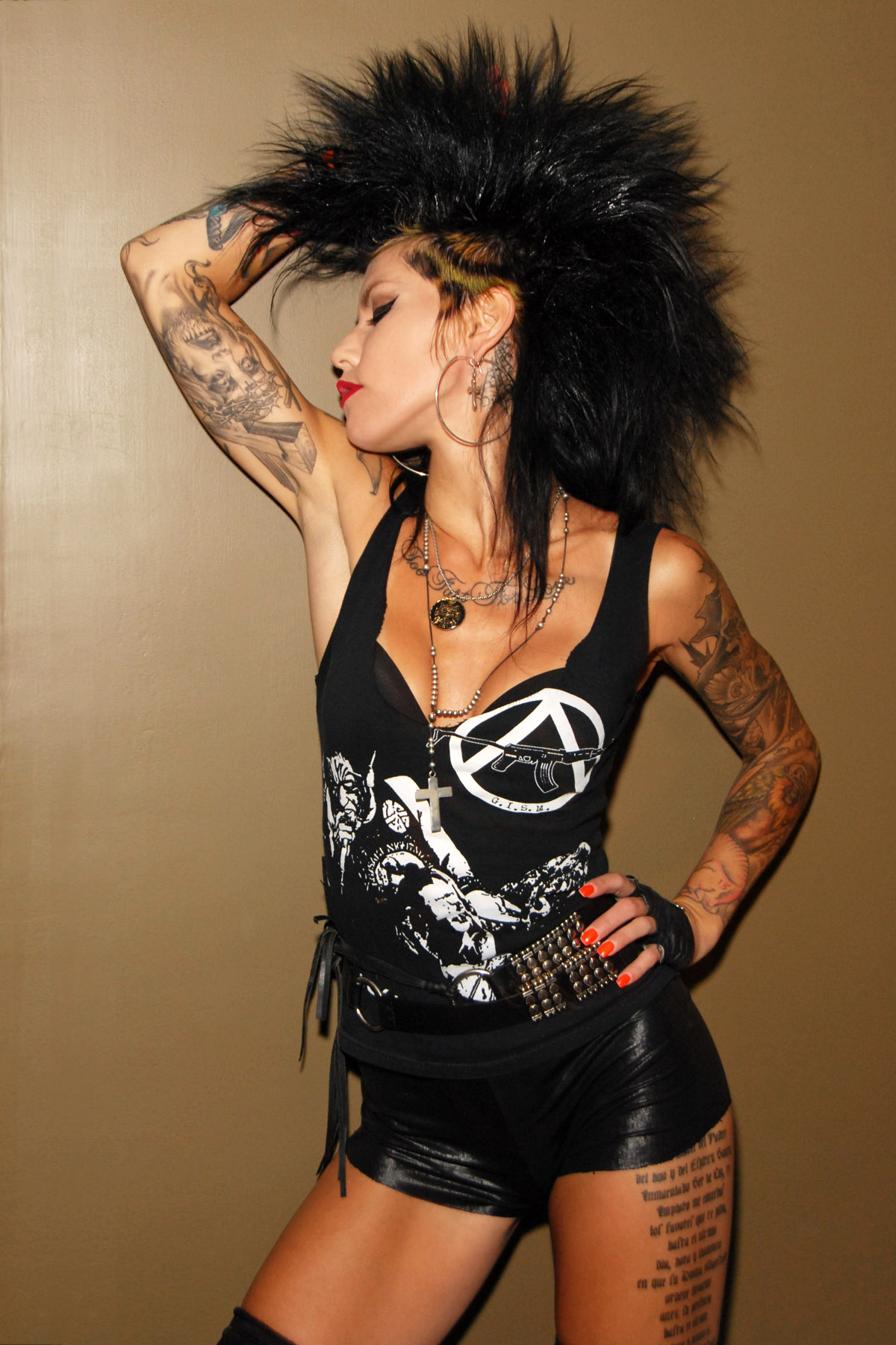 Alternative Model "Malice McMunn" - Photo by Glenn Francis of